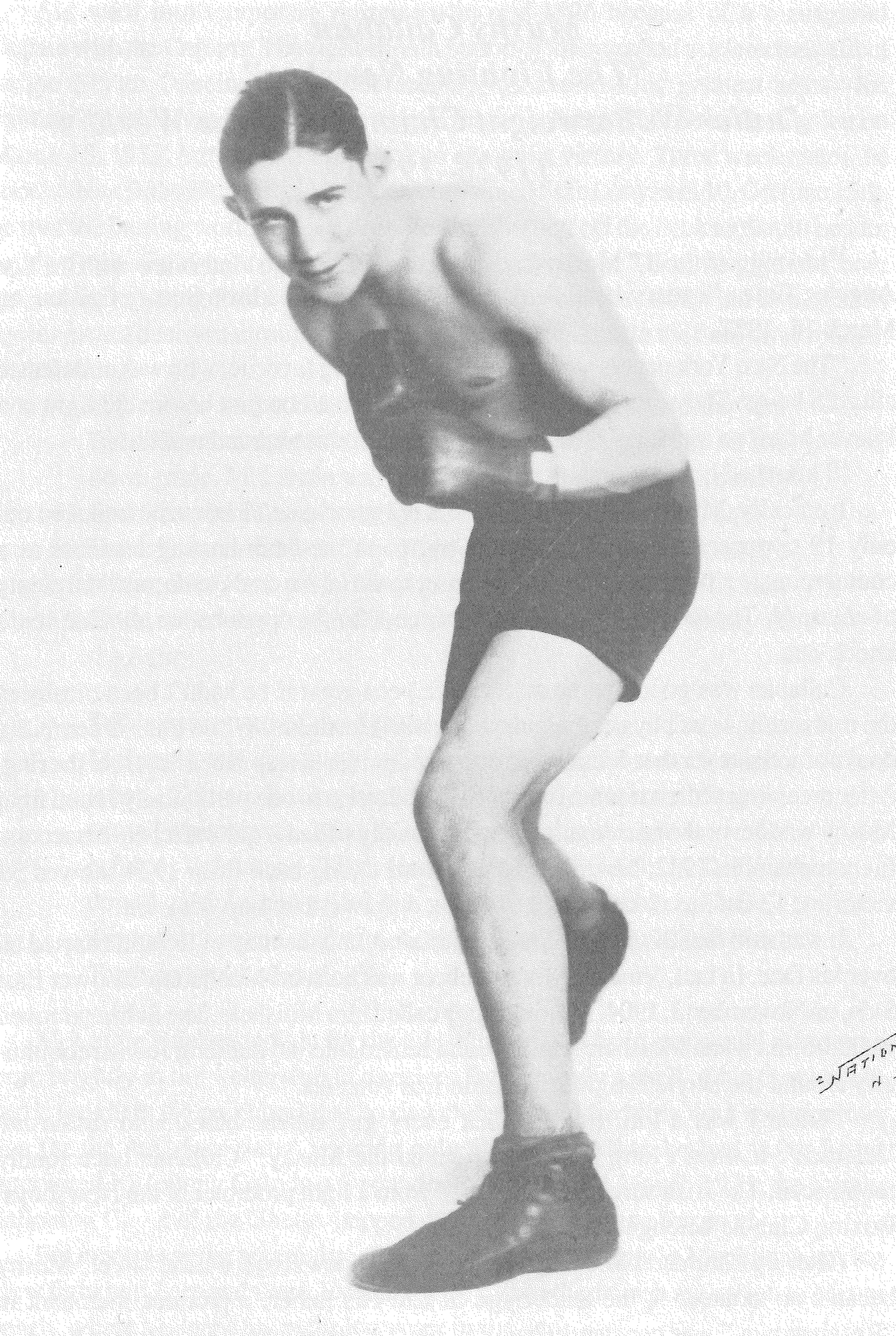 Youthful picture of Jr. Welterweight Boxer Mushy Callahan around 1920.